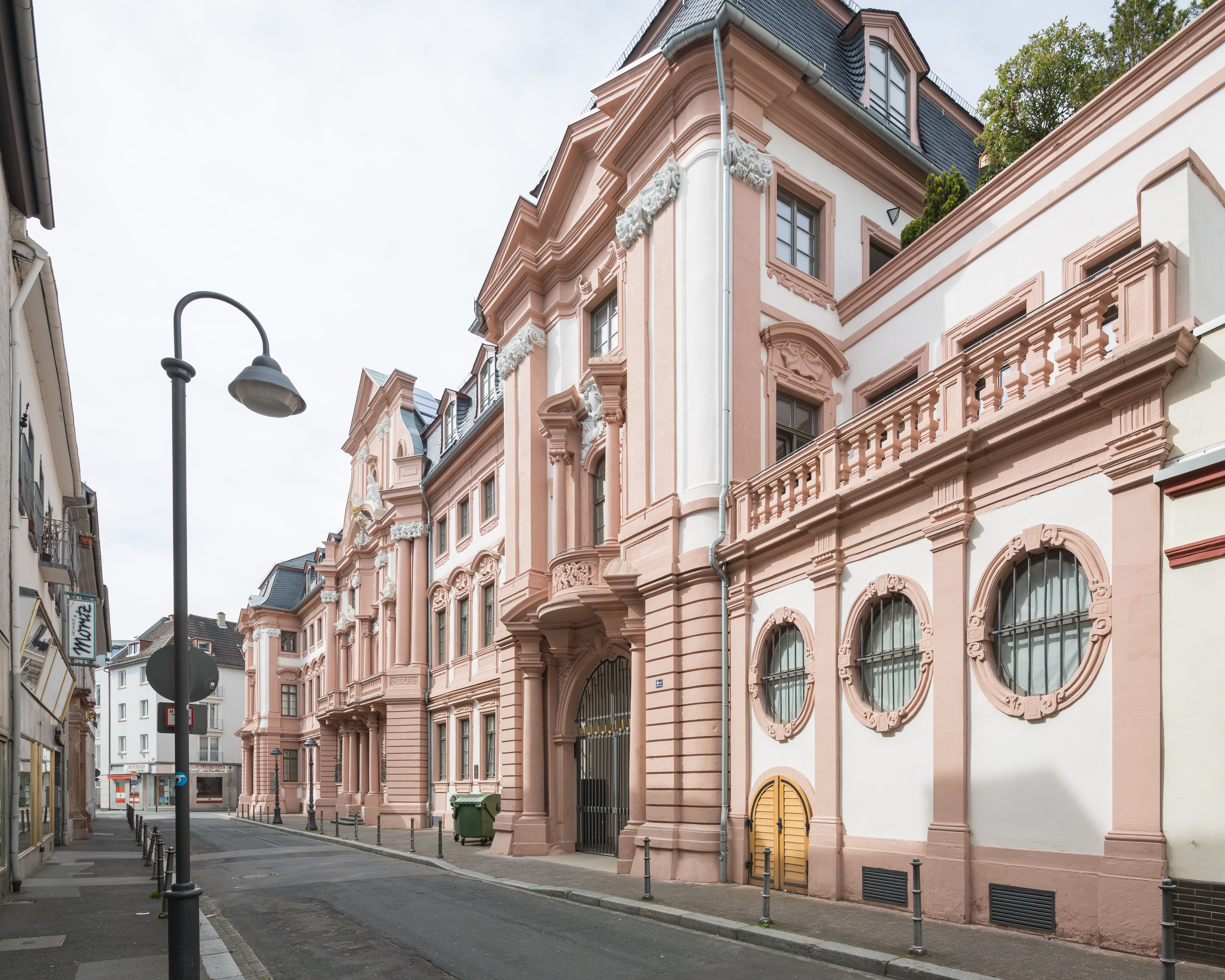 Mainz: Jüngerer Dalberger Hof (Younger Dalberg Court) as seen from the southeast